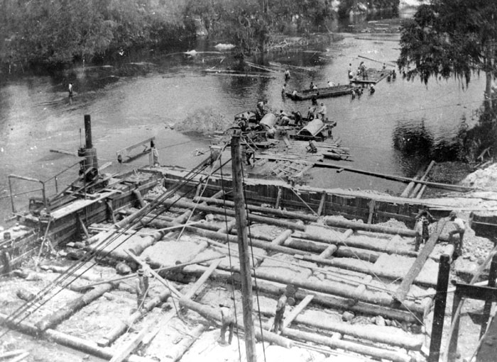 Looking southwest during the construction of the replacement dam in 1898-99. The logs were left in place during the pour and are still there. This section of the dam is still in use (2009).